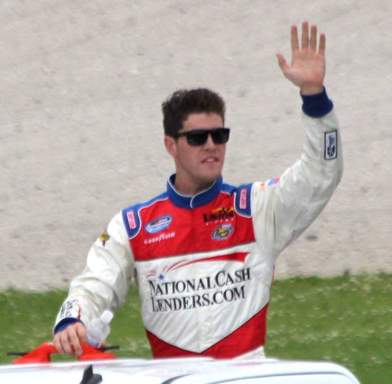 NASCAR Nationwide Series driver Tanner Berryhill waves to the crowd at the 2014 Gardner Denver 200 event at Road America.